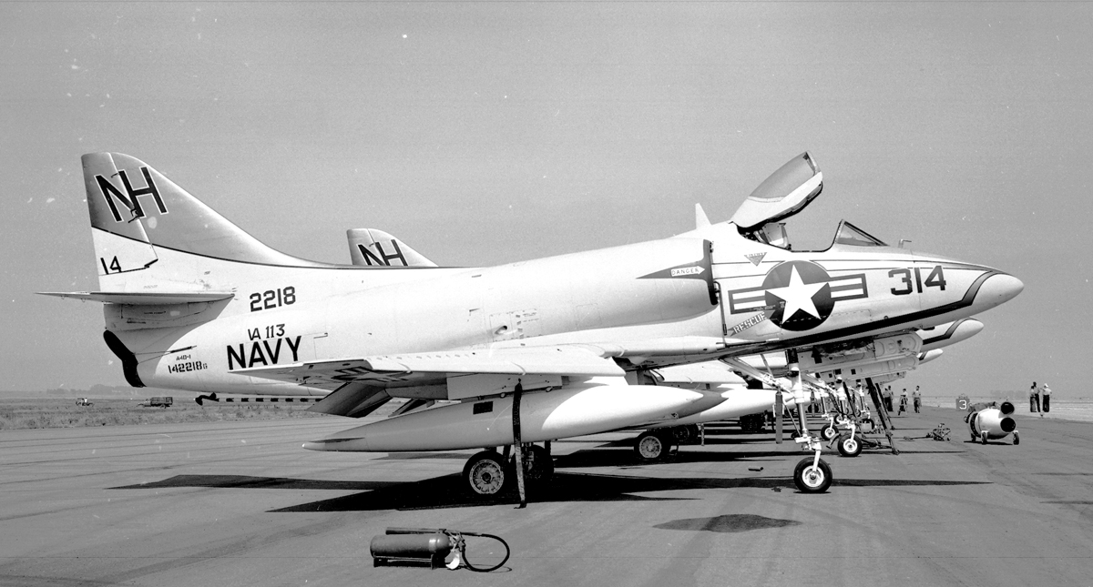 Douglas A4D-1 Skyhawk aircraft of Attack Squadron 113 of the United States Navy lined up at NAS Miramar on 10 August 1957